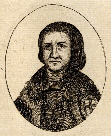 This file is an image cropped from File:John de Vere, 15th Earl of Oxford.jpg